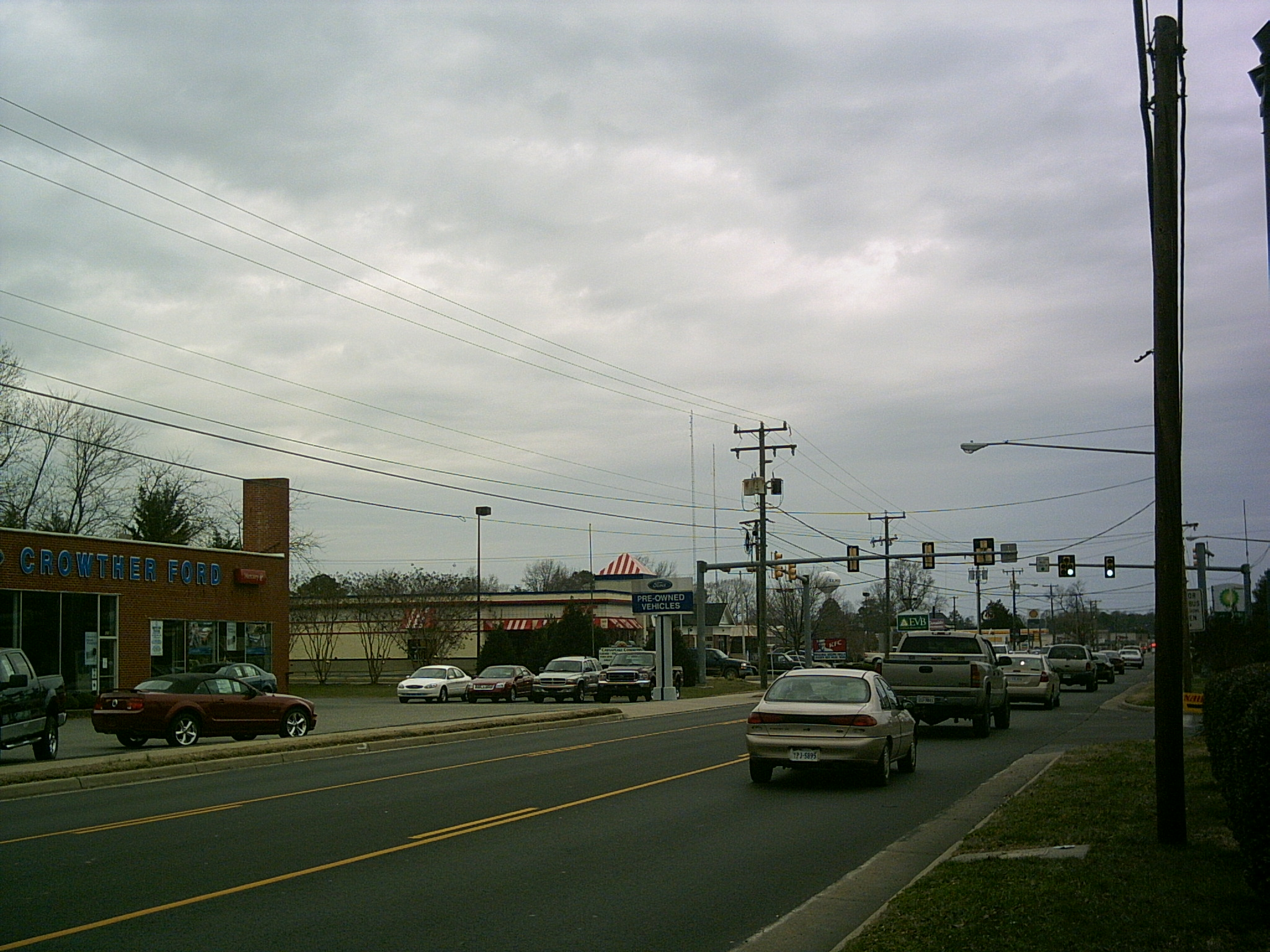 Outskirts of Kilmarnock, Virginia